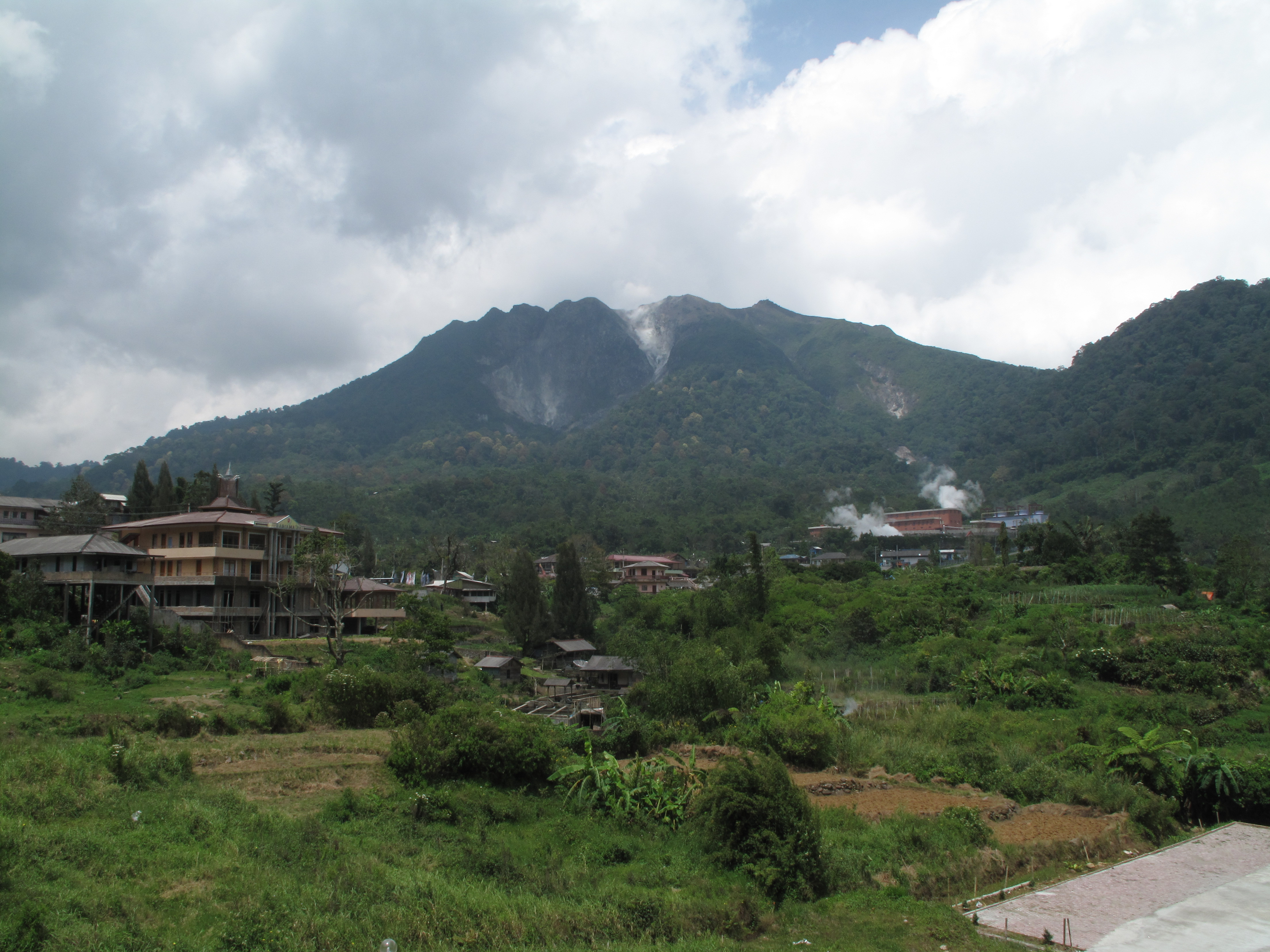 Gunung Sibayak seen from the Southeast in Sumatra, Indonesia.